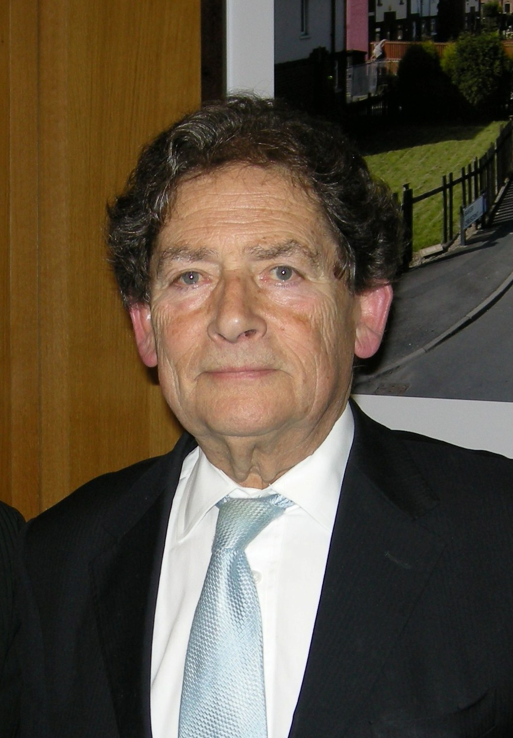 Nigel Lawson in Portcullis House